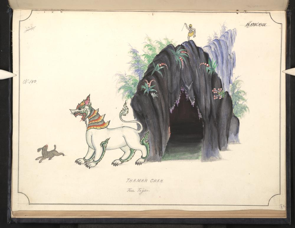 Watercolour painting by an unknown Burmese artist depicting 19th century Burmese life. Text: THAMAN CHAH Tree Tiger. from the caption: "Here our artist has depicted a fabulous monster supposed to reside in caves in the deepest forests." Shelfmark: Ms. Burm. a. 5